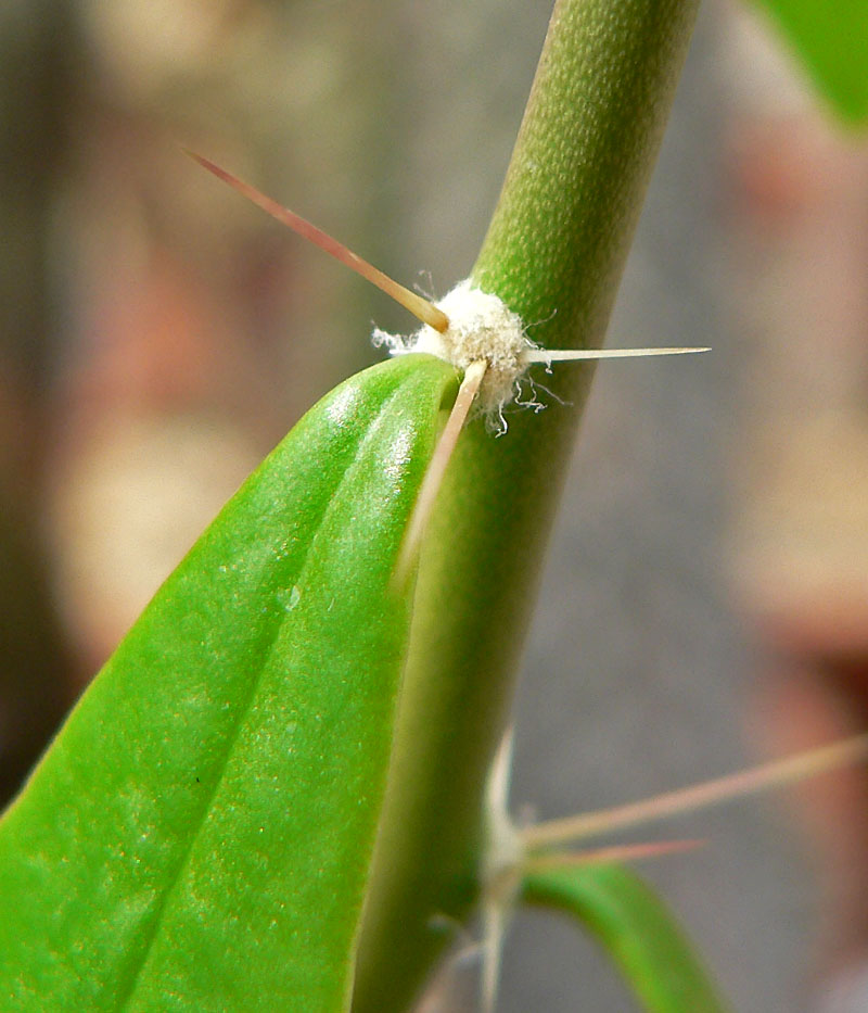 Pereskia humboldtii at the University of California Botanical Garden, Berkeley, California